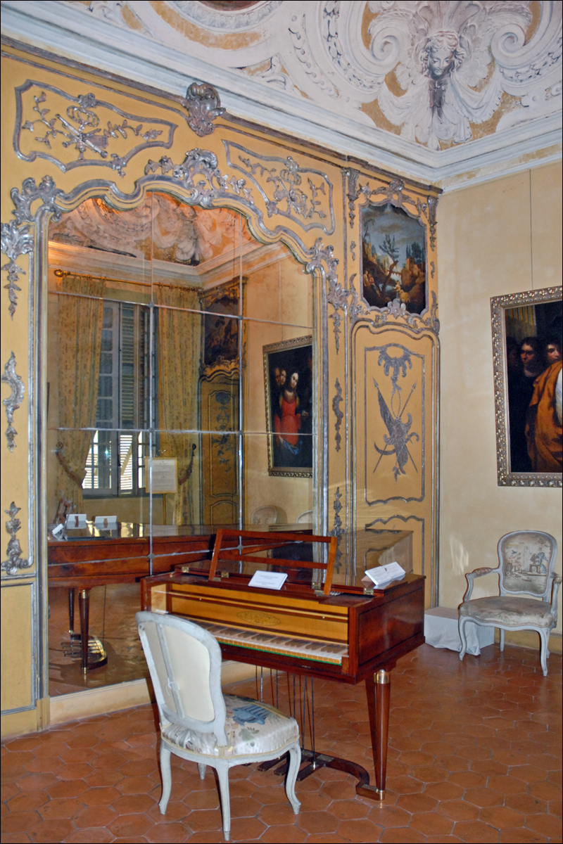 The "salon des saisons" (drawing room of seasons) at palais Lascaris in Nice, France.